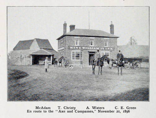 Hunting group in 1896, outside the King William IV Inn public house at Leaden Roding, on their way to the Axe and Compasses pub at Aythorpe Roding, in Leaves from a Hunting Diary in Essex (1900).